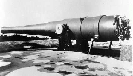 Historical image of the Ben Buckler gun battery, defences of Sydney, Australia.